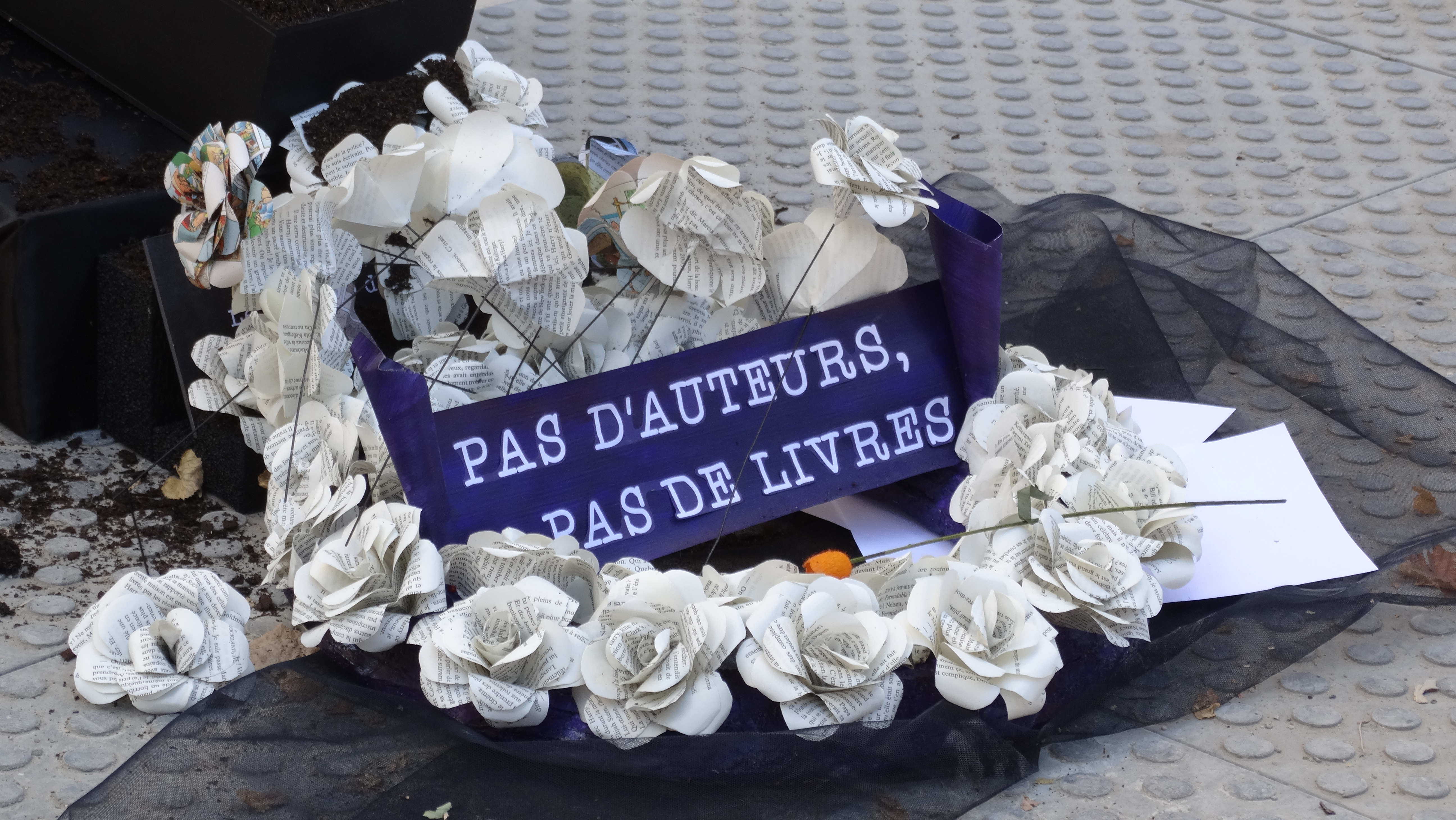 Funeral wreath in paper with the message "Pas d'auteurs, pas de livres" (No author, no book) laid on Earth on July 9th, 2018, in Palais-Royal public park during the satirical funeral service for the "Book of Tomorrow" organised by a community of French authors led by the Charte des auteurs et illustrateurs jeunesses of whom the writer Samantha Bailly is the president.